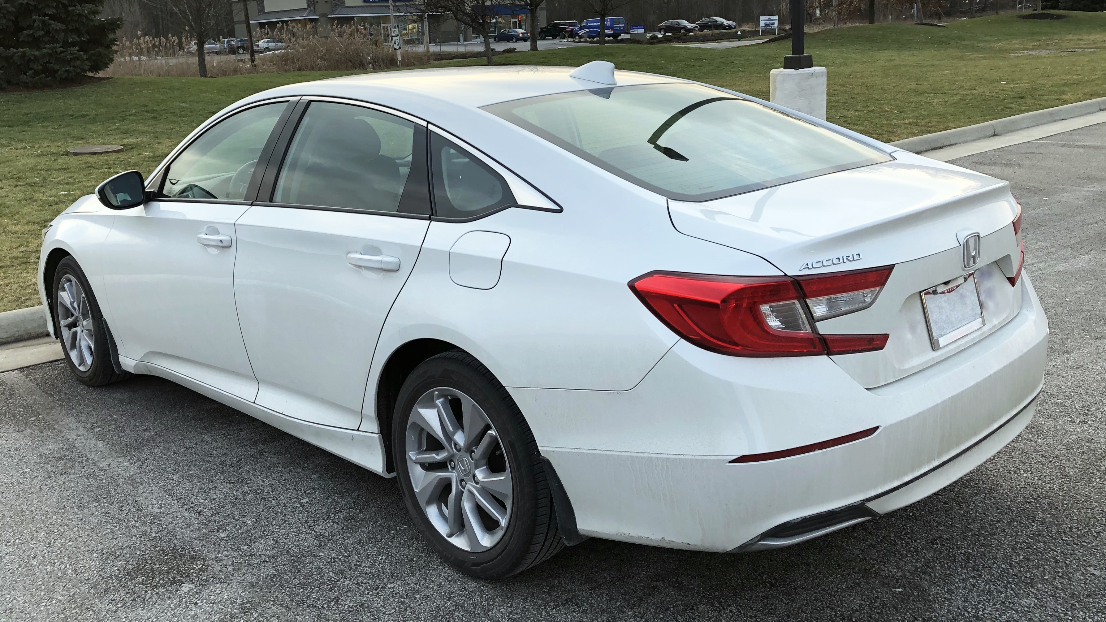 The rear of a white tenth-generation Honda Accord EX